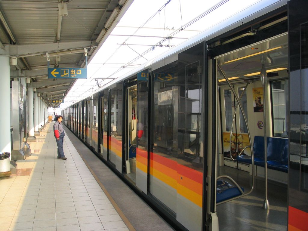 閔行開發區站-5號線月台 Line 5 Platform of Minhang Development Zone Station